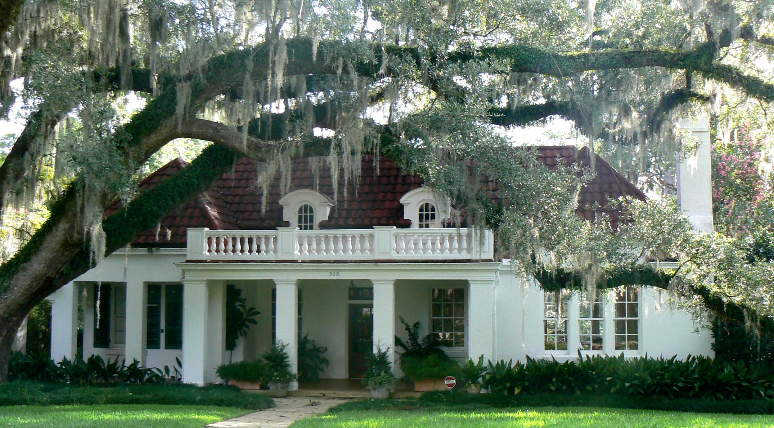 The Covington House or Schendel House, in Tallahassee, Florida, USA, designed by architect William Augustus Edwards. This building is on the U.S. National Register of Historic Places.